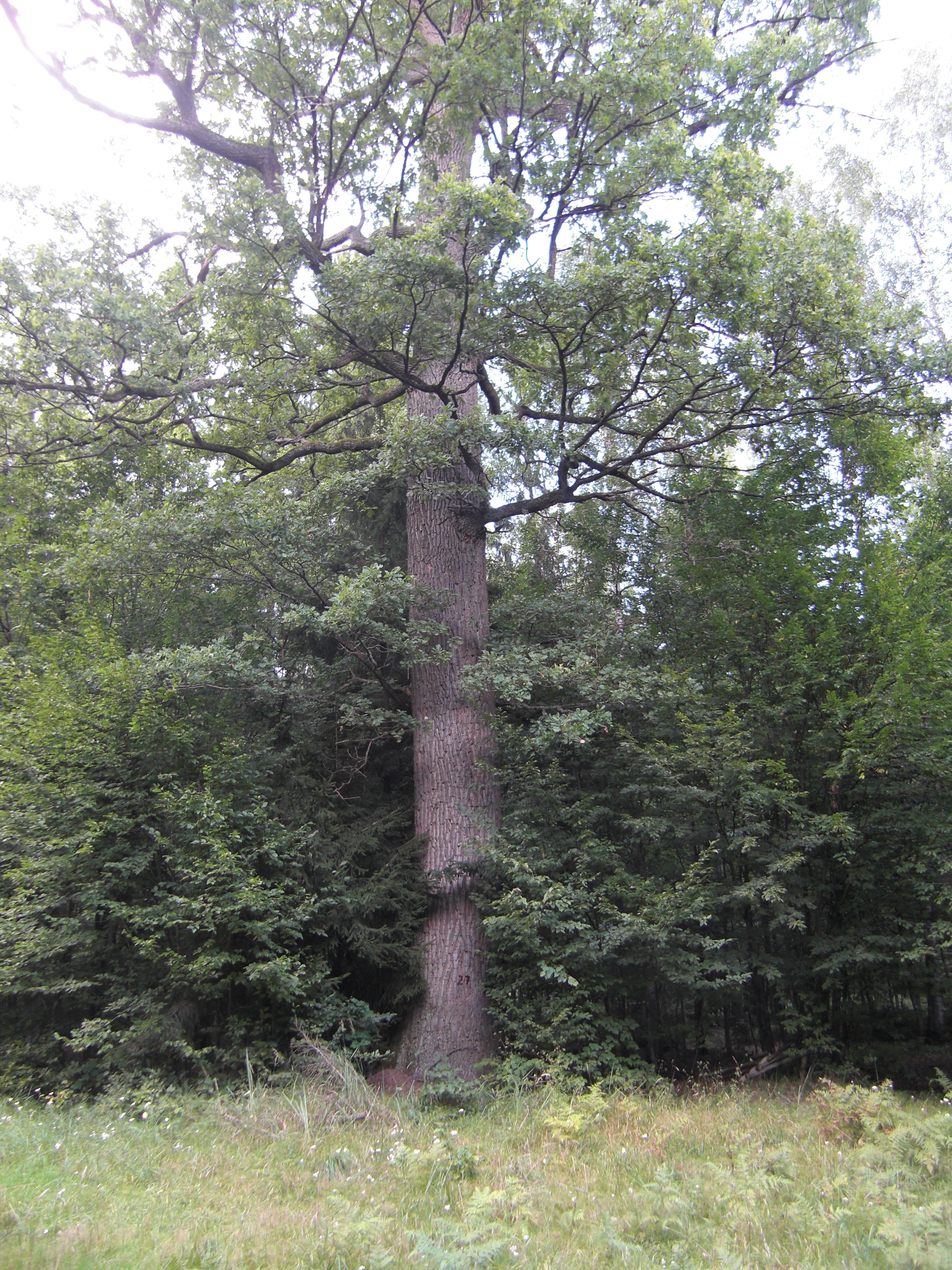 Quercus robur in Puszcza Białowieska square 181A